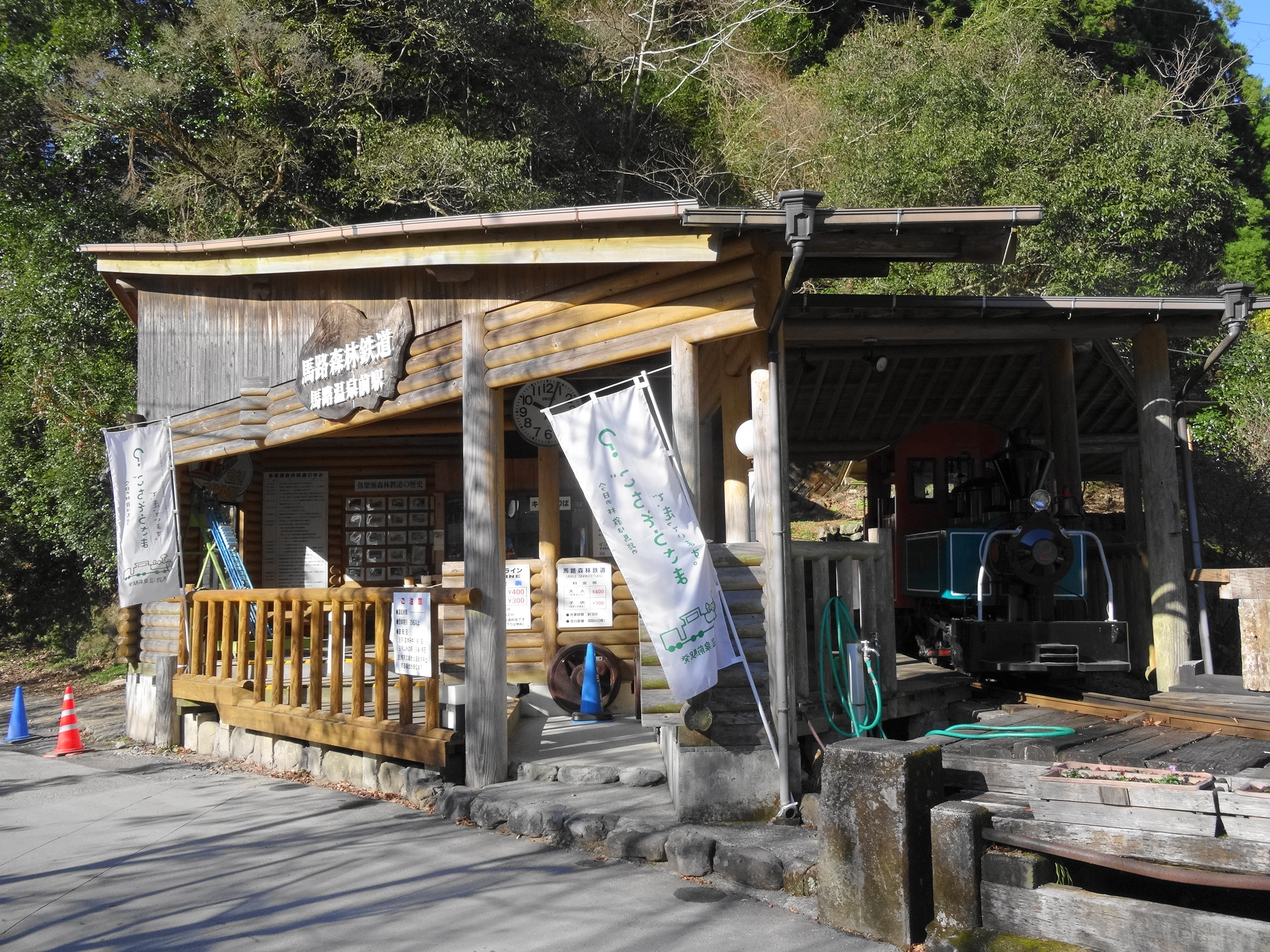 Umaji forest railway park Umaji-Onsen Station in Umaji, Kochi, Japan